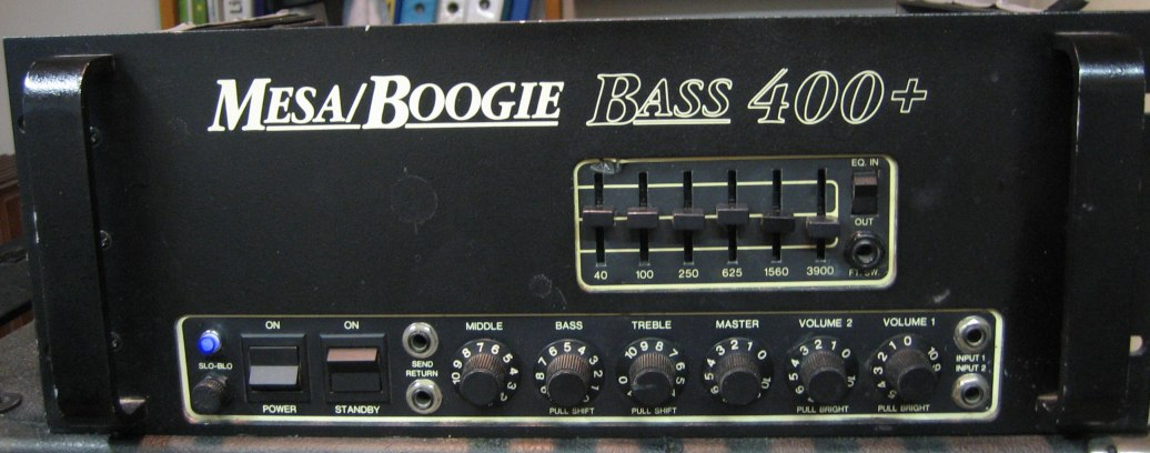 front panel of a Mesa Boogie Bass Amp 400+